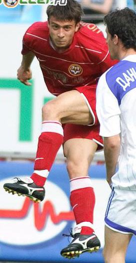 Volodymyr Polyovyi, Ukrainian footballer, during the game for Metalurh Zaporizhya